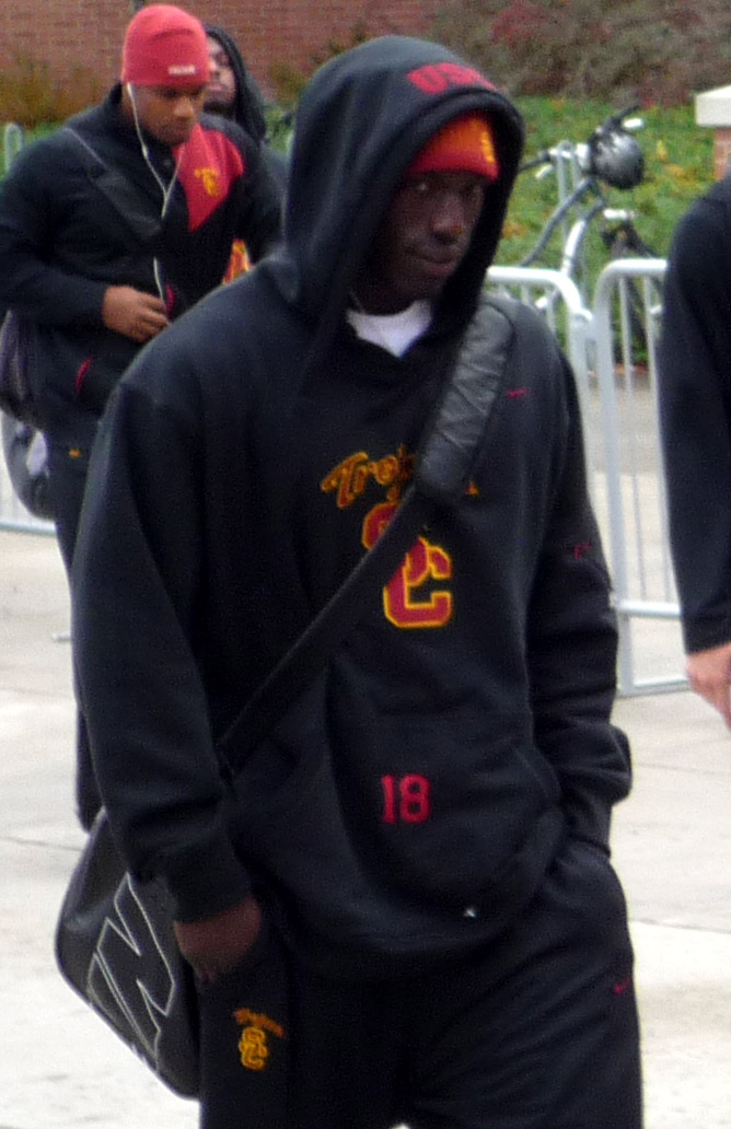 Wide receiver Damian Williams, during a trip to visit the Washington State Cougars in the 2008 season.